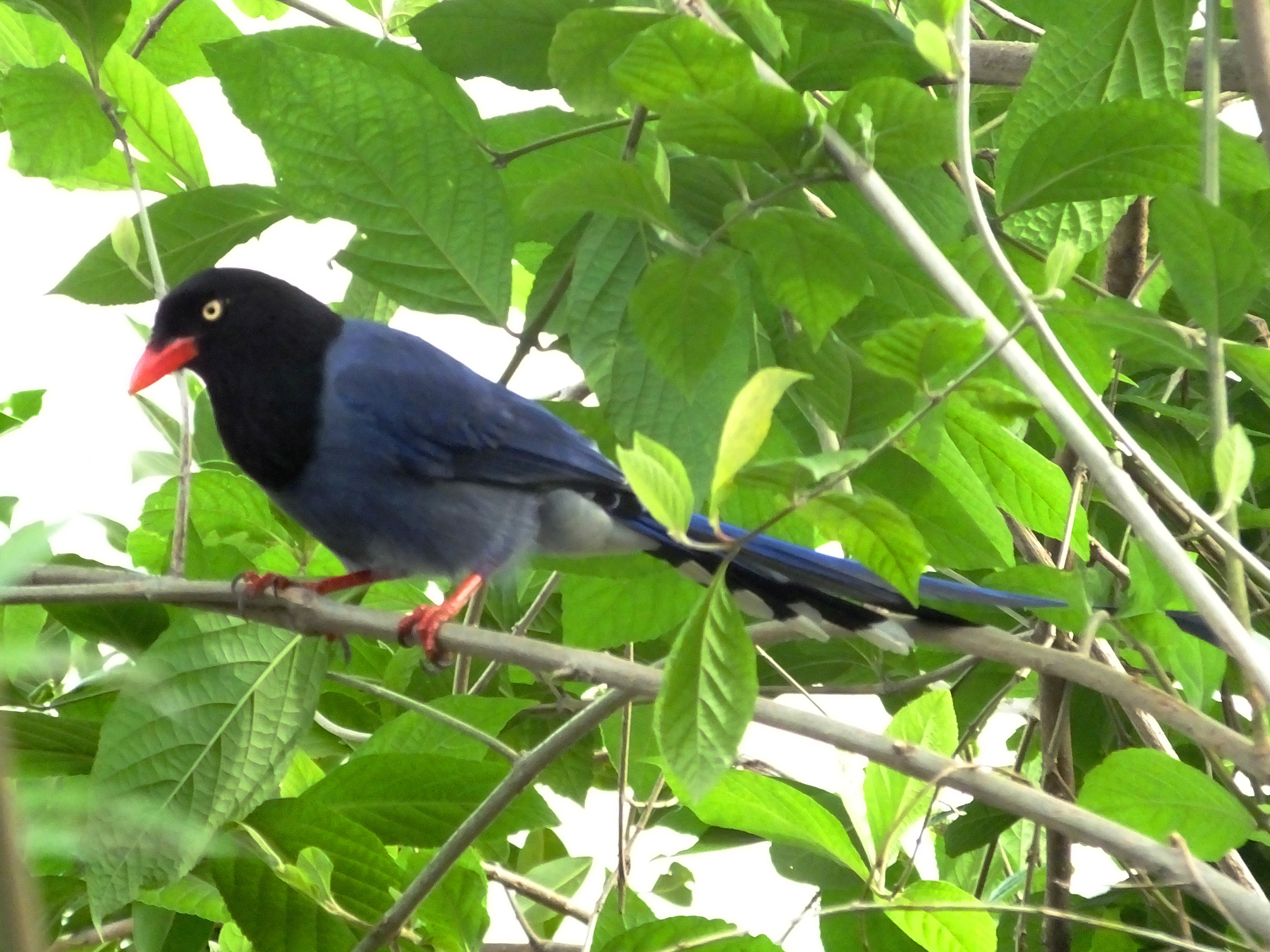 Urocissa caerulea at a park in Taiwan